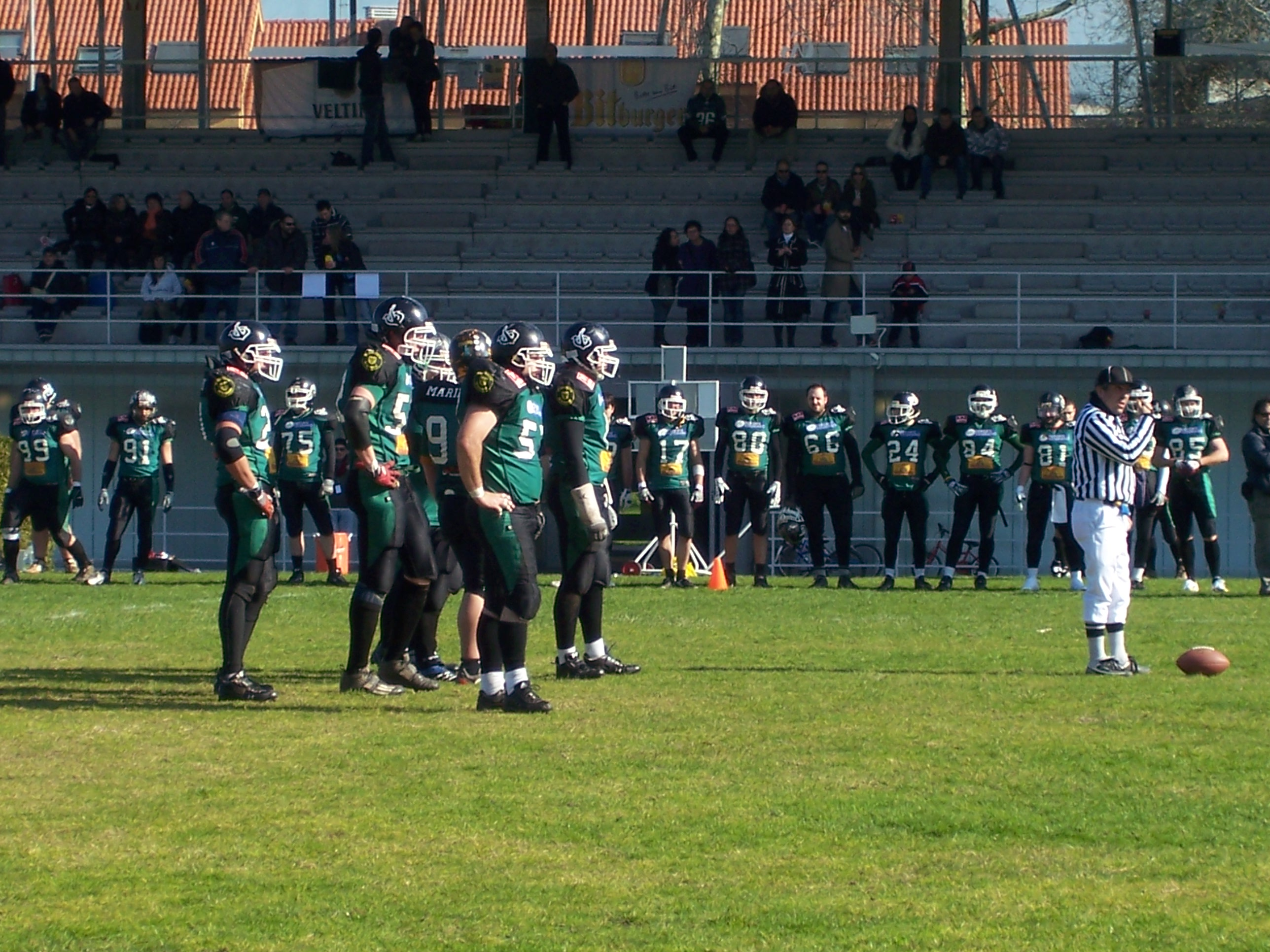 Gijón Mariners during a game. Feb 15, 2009.